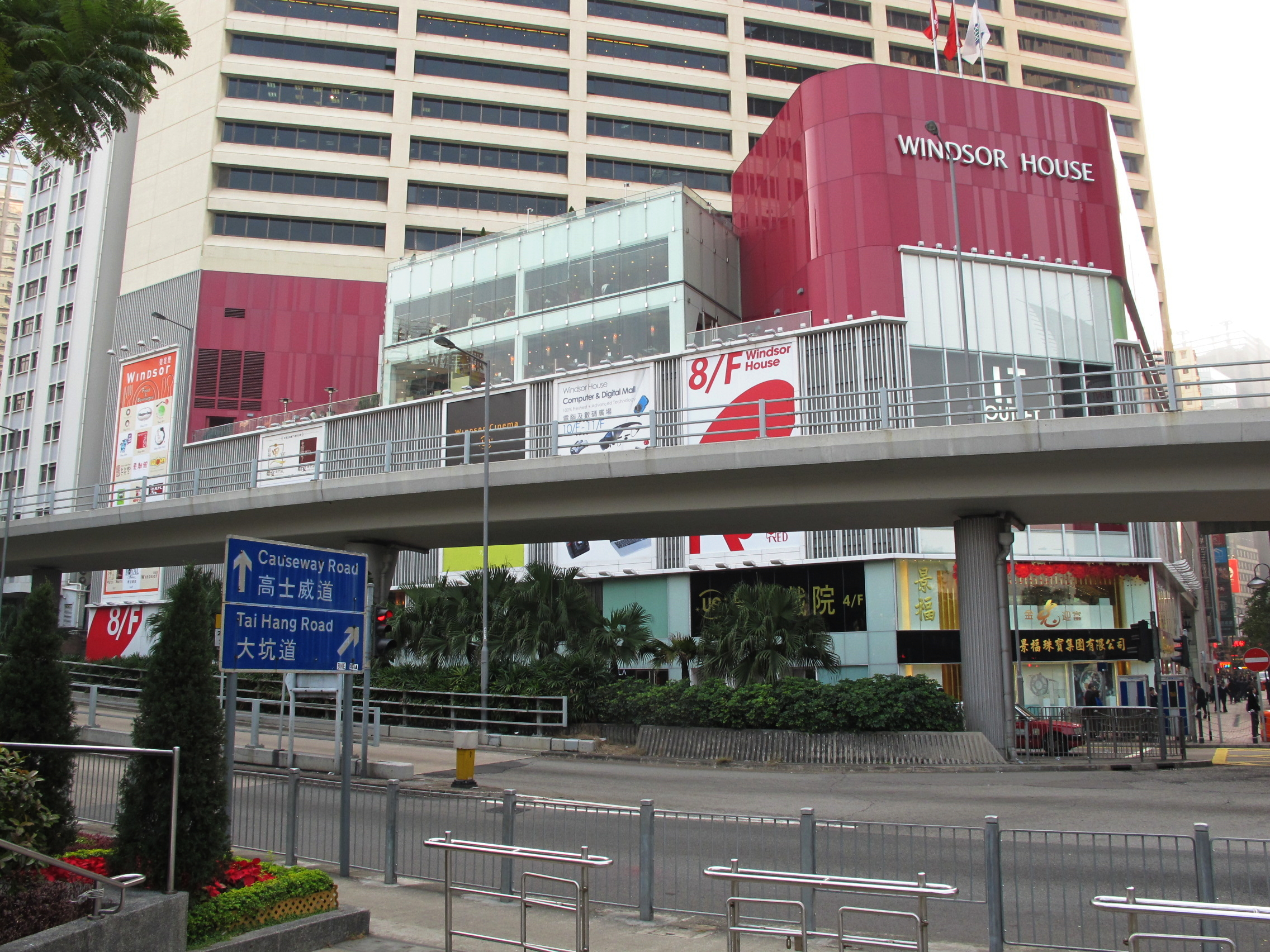 Windsor House Outside View 皇室堡